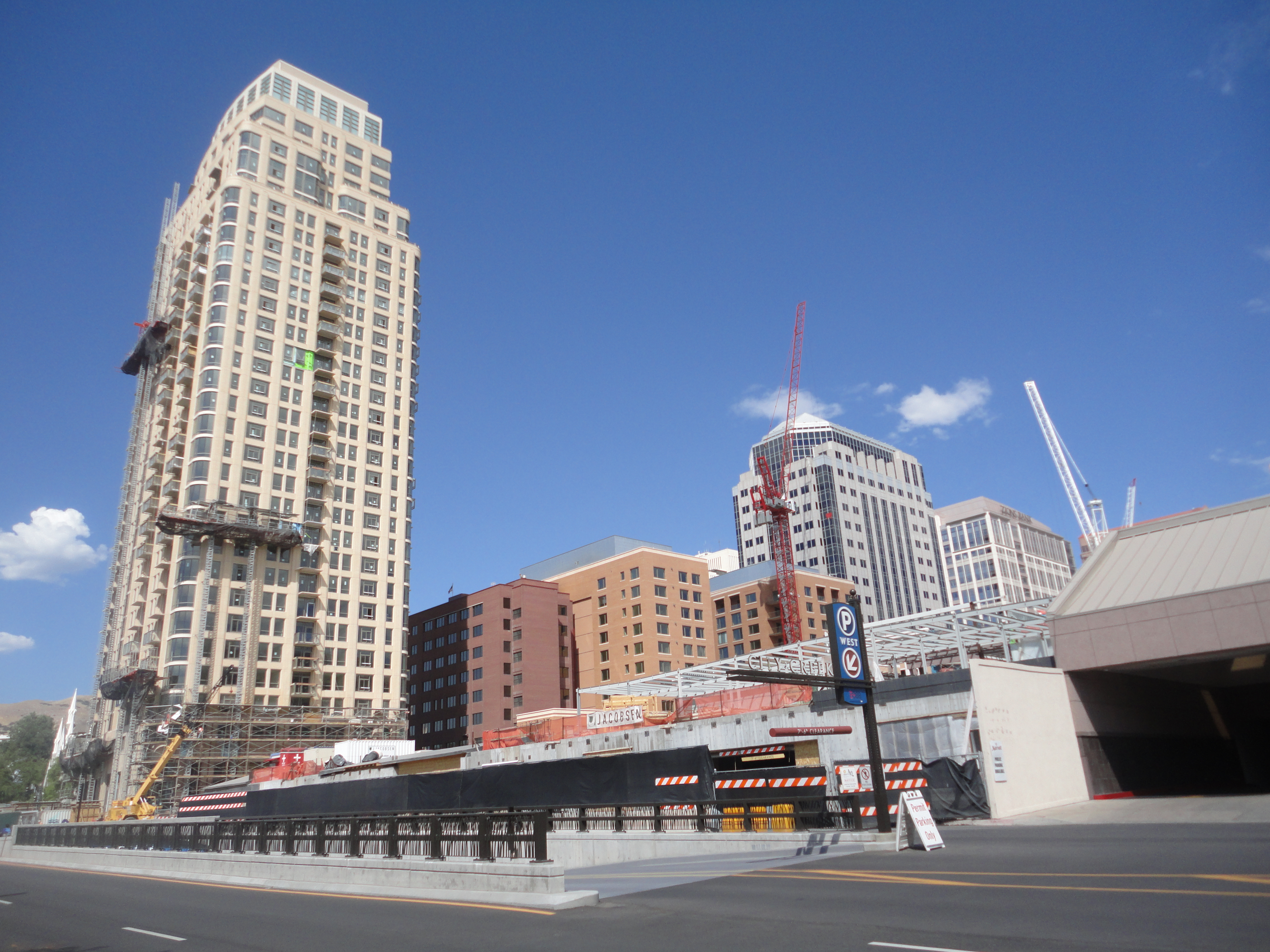 City Creek Center Parking Entrance (Under Construction)